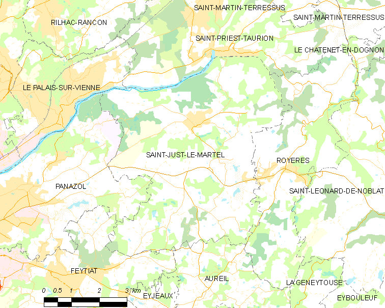 Map of French municipality Saint-Just-le-Martel